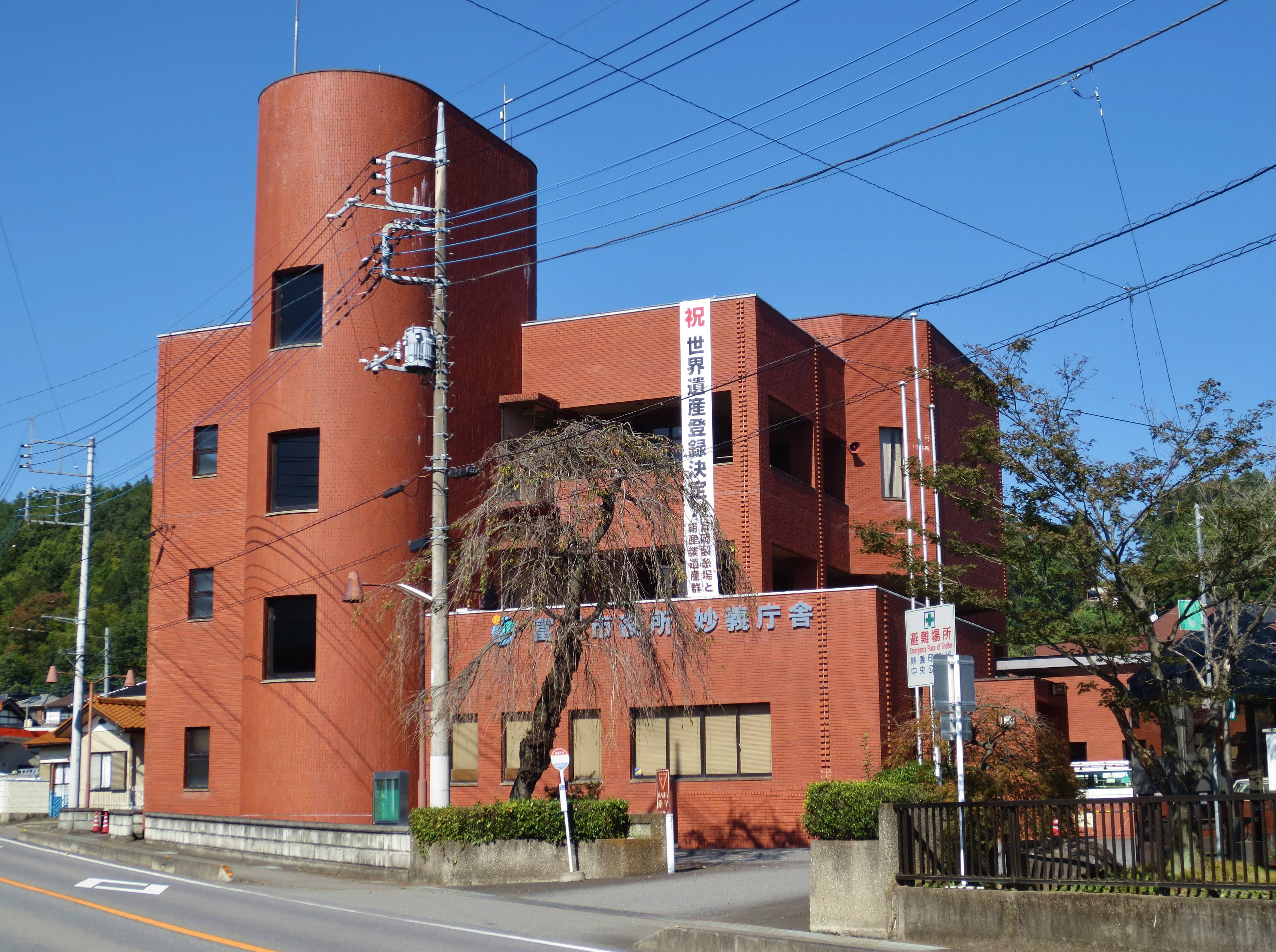 Tomioka city Myōgi branch office.